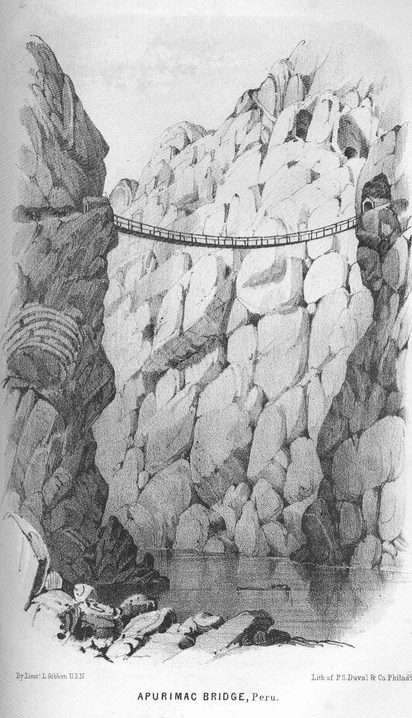 Apurimac Bridge, Peru Subject: Apurimac (Peru : Dept.), Suspension bridges--Peru Geographic Subject: Peru--Apurimac Tag: Coasts